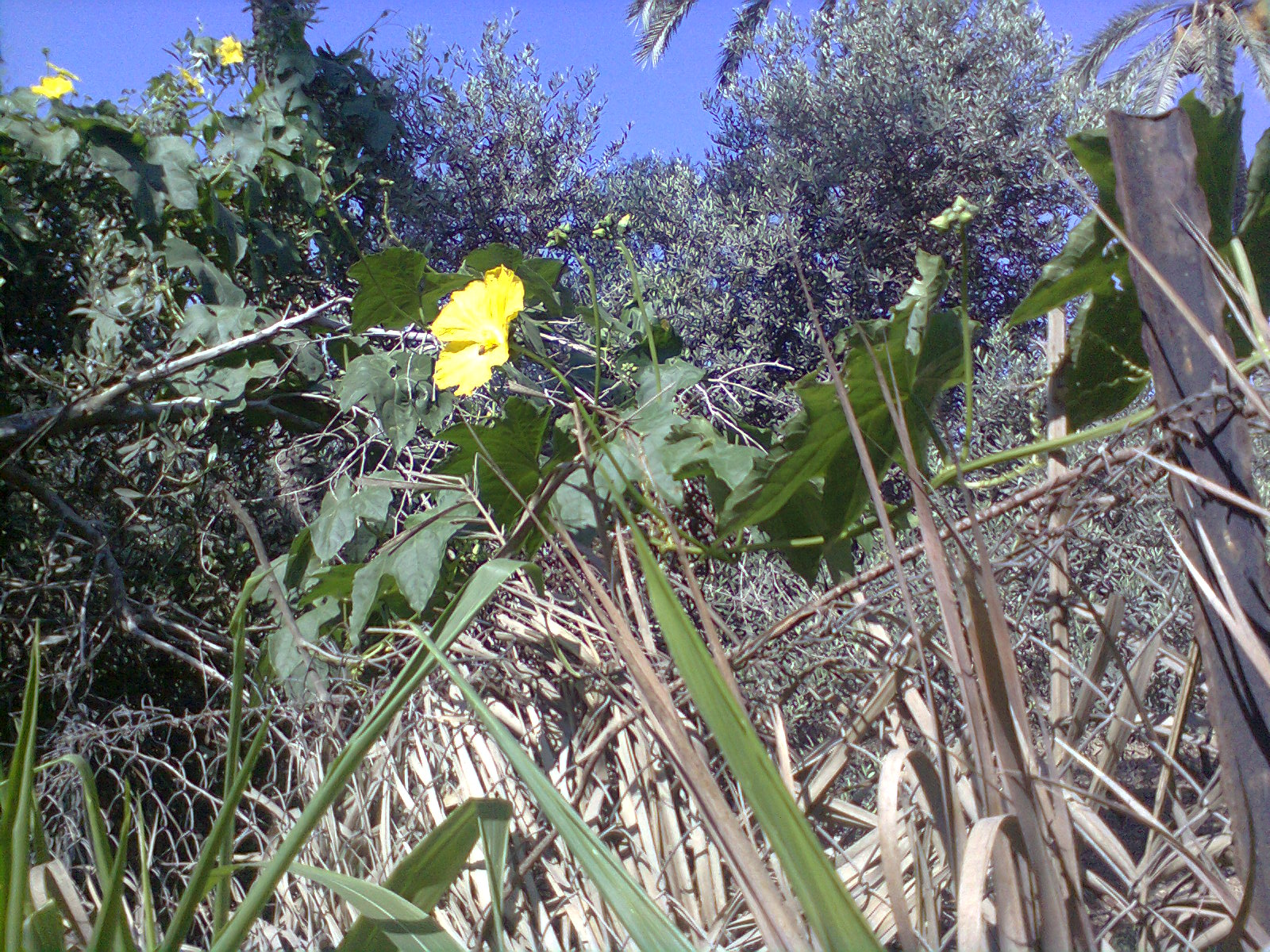 Luffa flowers